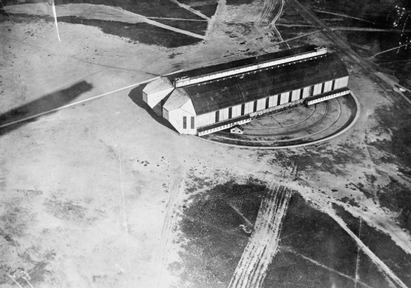 Aerial photograph of the German airship sheds at Nordholz airship station near Cuxhaven.